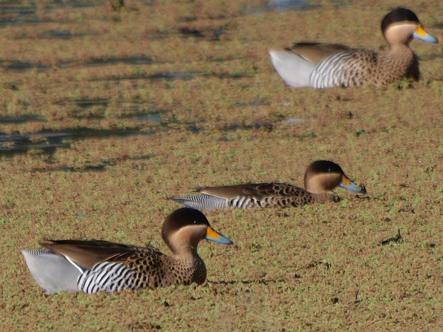 Three Silver Teal in Piñeyro, Buenos Aires, Argentina.